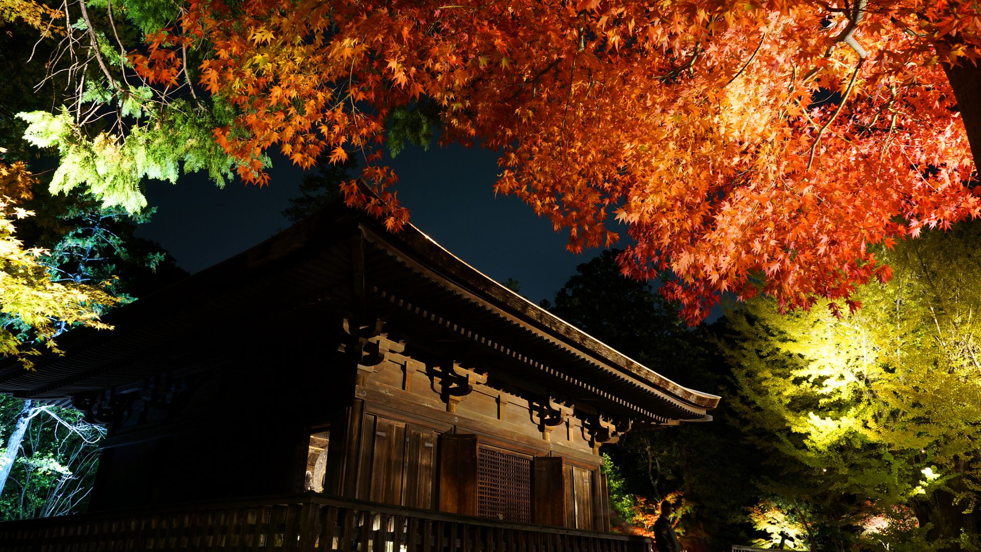 Shiramizu Amidadō (National Treasure), Iwaki, Fukushima, Japan